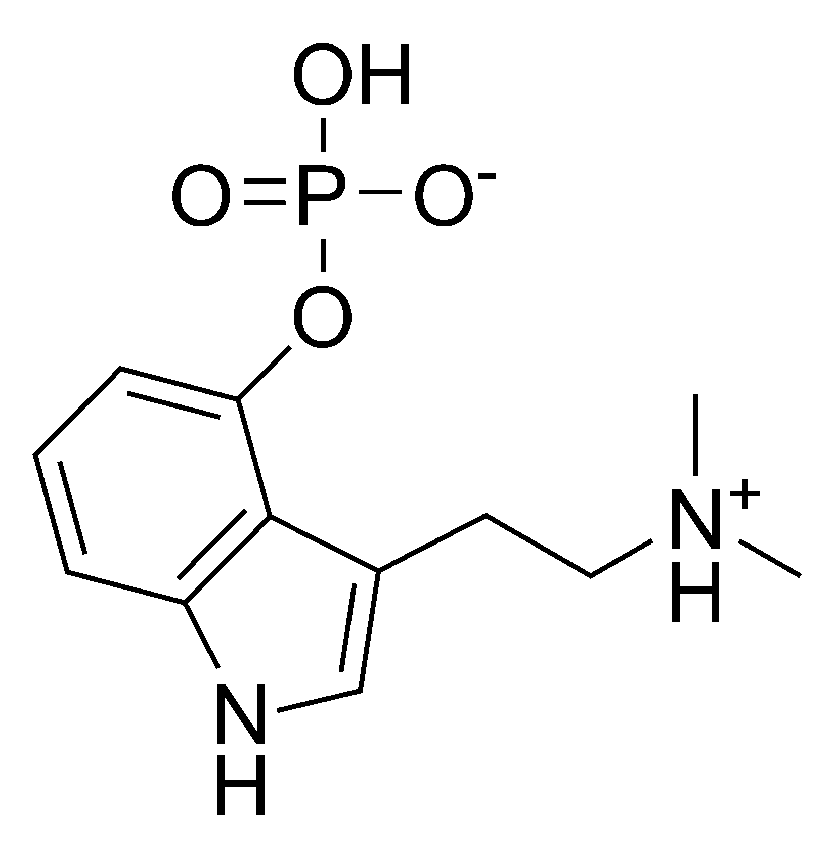 Chemical structure of Psilocybin